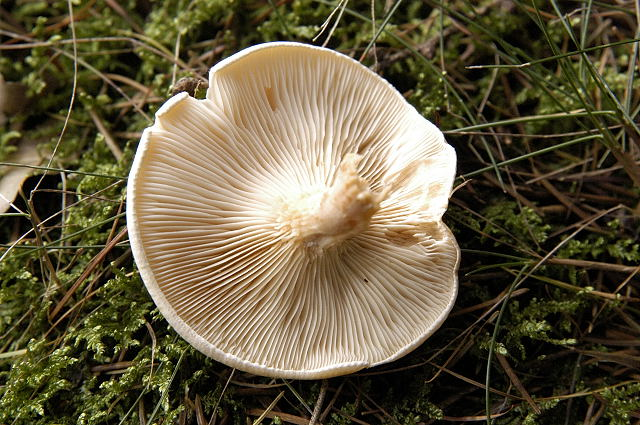 Clitocybe gibba from Commanster, Belgium. If you think this is a different taxon, please contact James Lindsey.